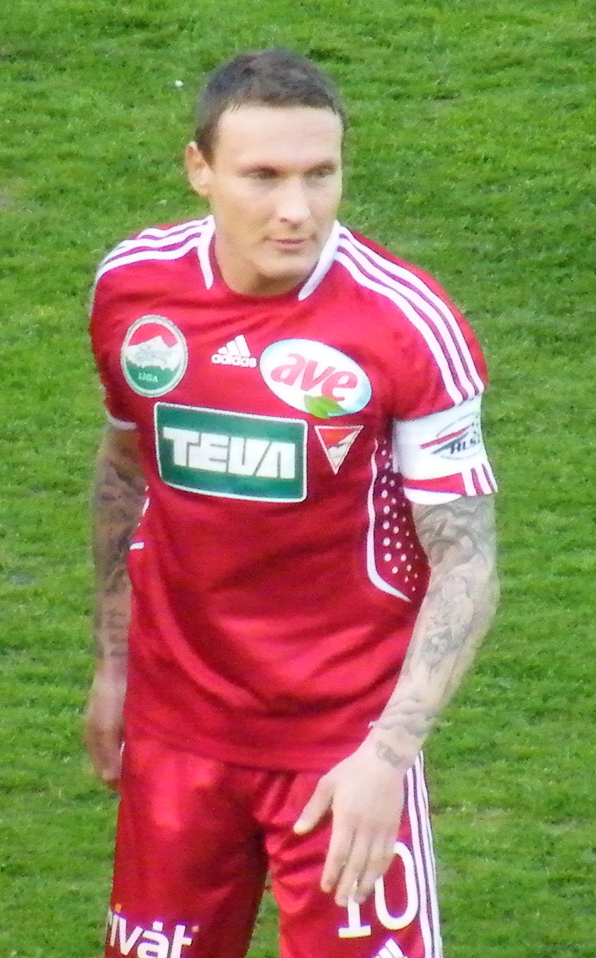 László Bodnár Hungarian football player